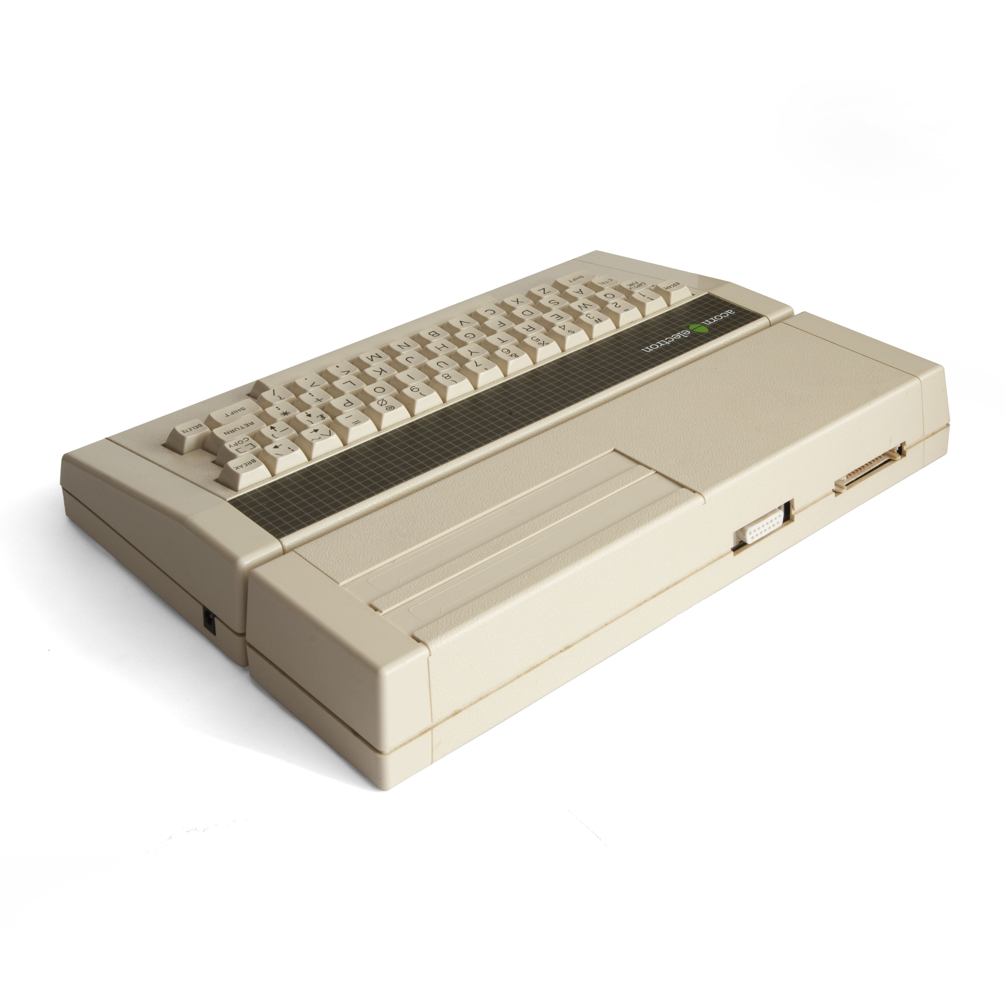 Acorn Electron showing the Plus 1 expansion unit